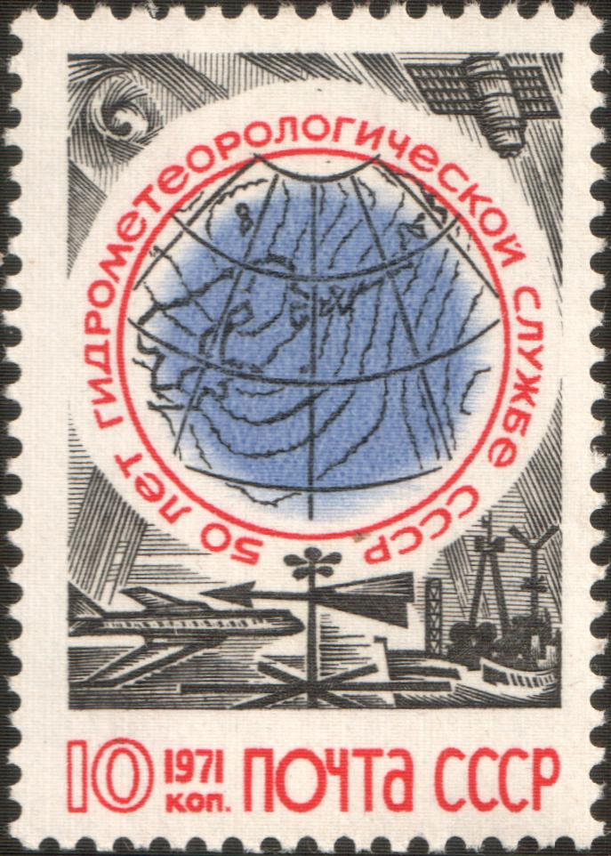 USSR stampː Weather Map, Plane, Ship, Satellite and Instruments. Seriesː 50th Anniversary of the Soviet Hydrometeorological Service (Decree on 1921.06.21)